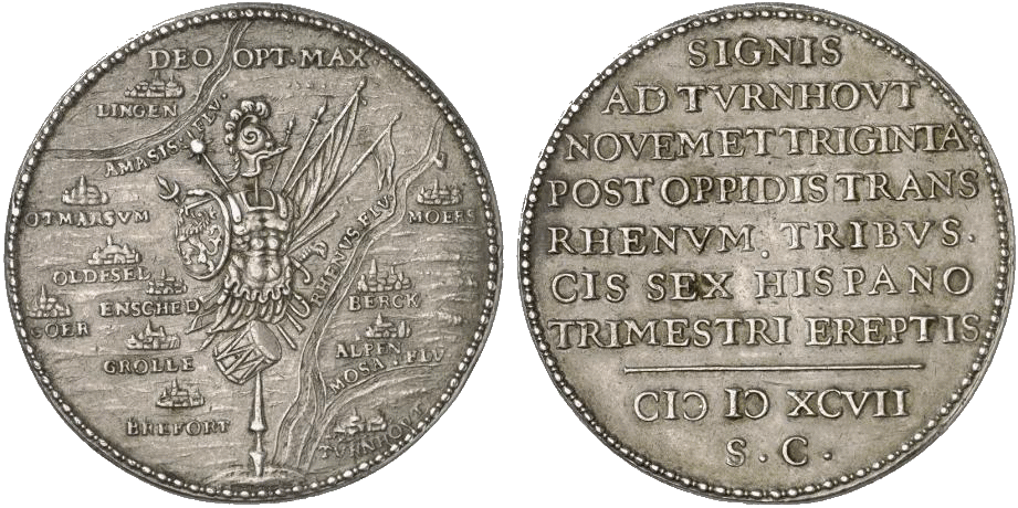 Victorie at Turnhout a.o. cities memorable coin